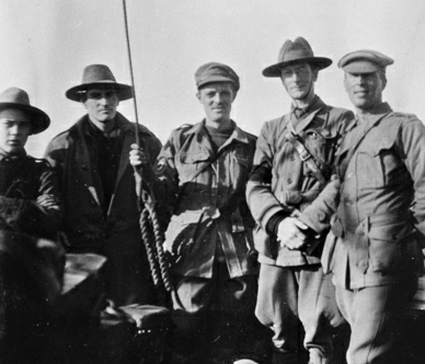 Anzac Book Staff on a trawler at Imbros. Left to right: Arthur W Bazley, Frank R Crozier, David Barker, Australian Official Correspondent Charles E W (C. E. W.) Bean, and Ted Colles.